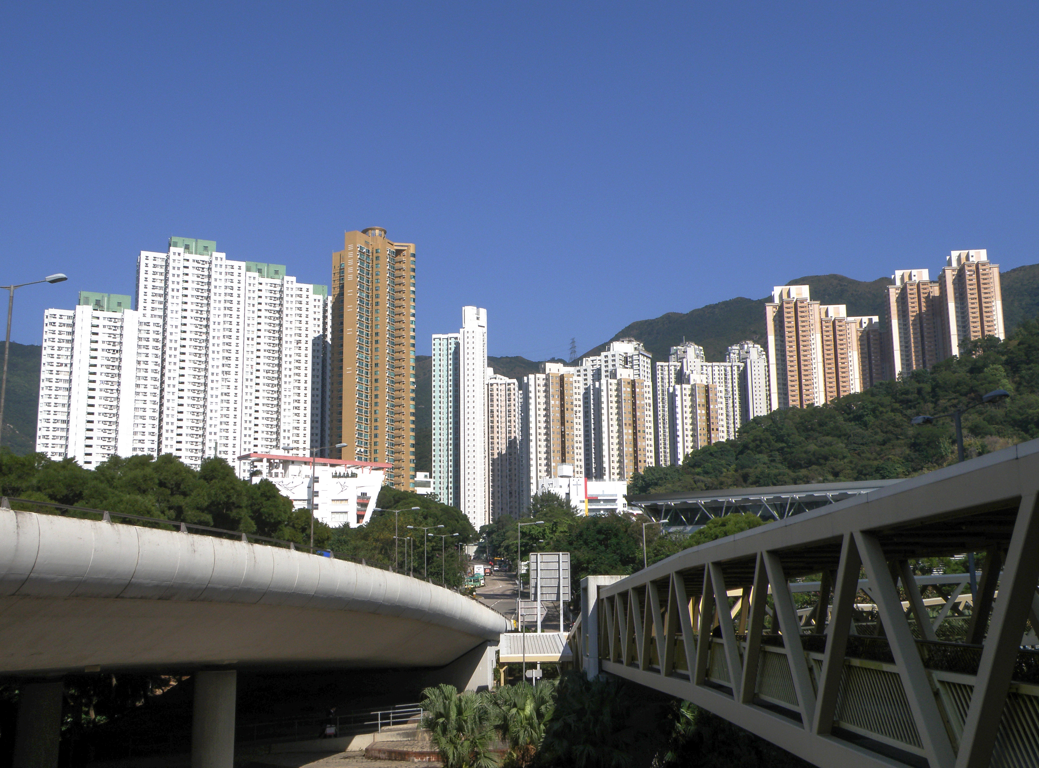 Hammer Hill in Wong Tai Sin District, Hong Kong.